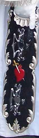 Desciption: Troccola (Taranto) Photographer: --Asia Date: 14.4.2006